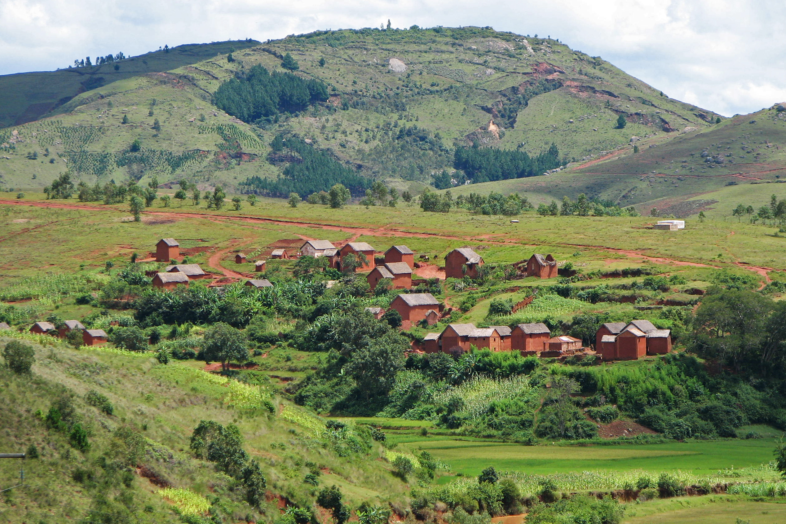 Village in Central Highlands, south of Antananarivo in Madagascar